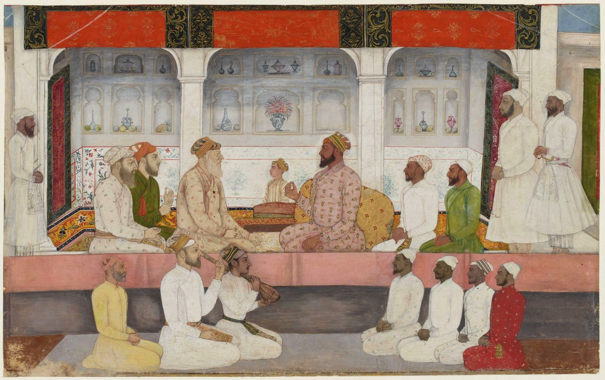 A seated portrait of Sayyid Abdullah Khan holding court Early 18th century The British Museum